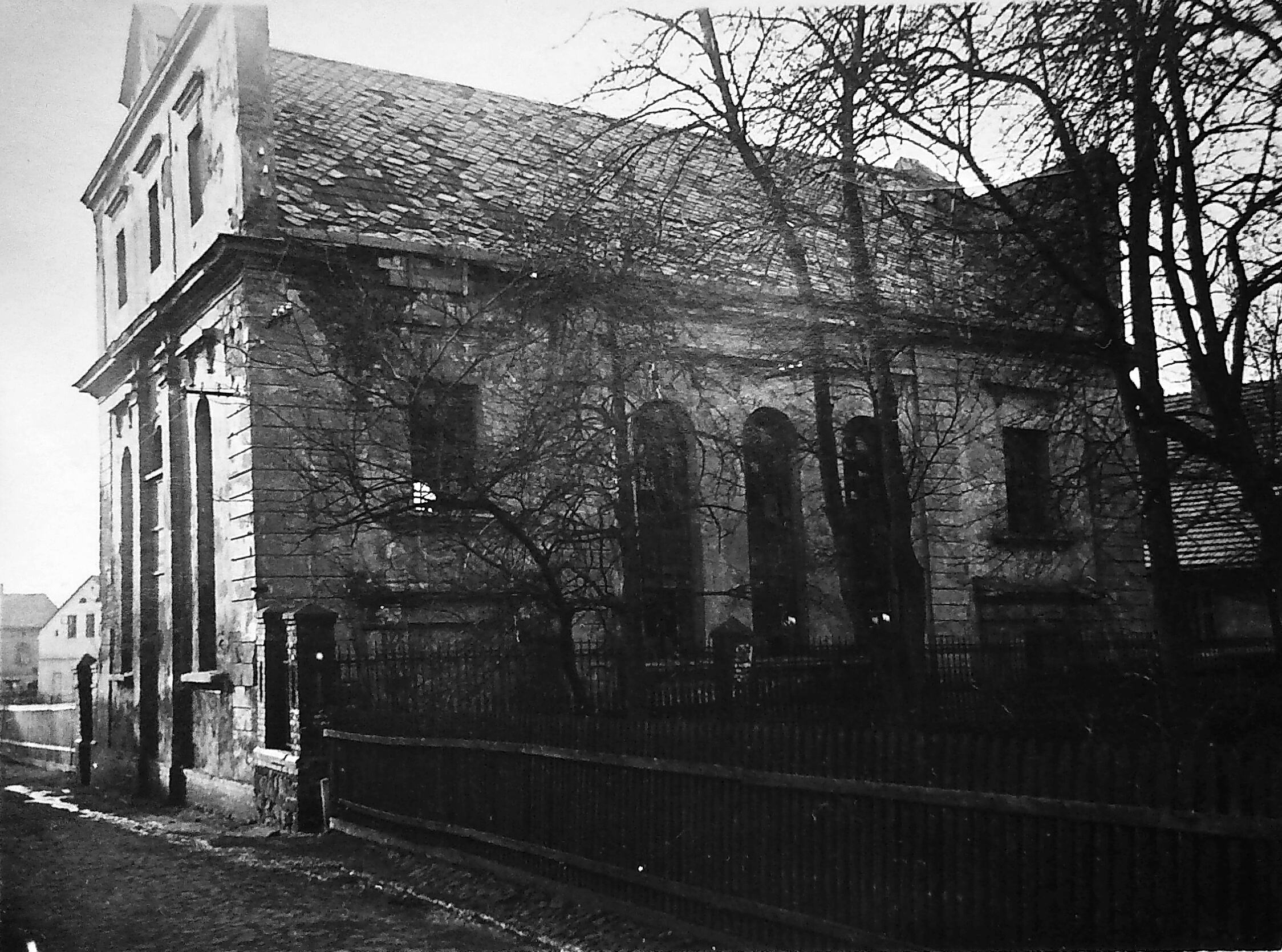 Old synagogue in Hlucin, circa 1920s